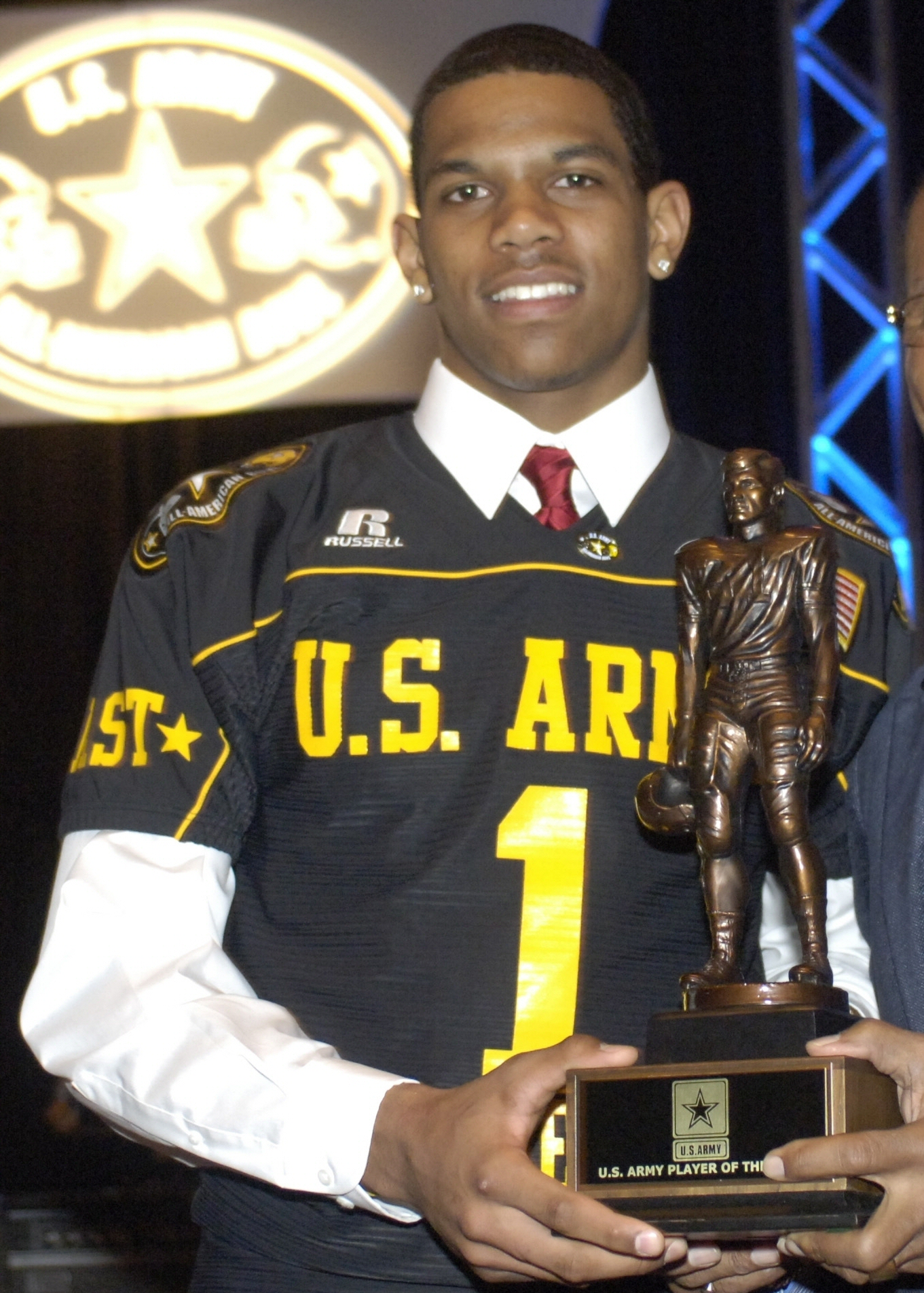 East quarterback Terrelle Pryor of Jeannette, Pa., was selected U.S Army high school football Player of the Year during an awards banquet in San Antonio, Texas. Pryor and 90 of the top football players in the nation meet at the Alamodome in an East vs. West confrontation. Gale Sayers, NFL Hall of Fame running back, was the keynote speaker.